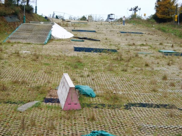 Wycombe Summit, an abandoned ski slope in High Wycombe, Buckinghamshire, England.